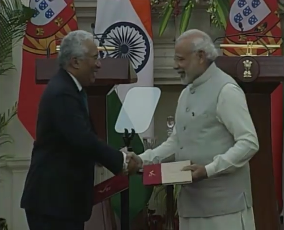 Handshake between the Portuguese Prime Minister António Costa (left) and the Indian Prime Minister Narendra Modi (right), during the former's official visit to India, in January 2017.